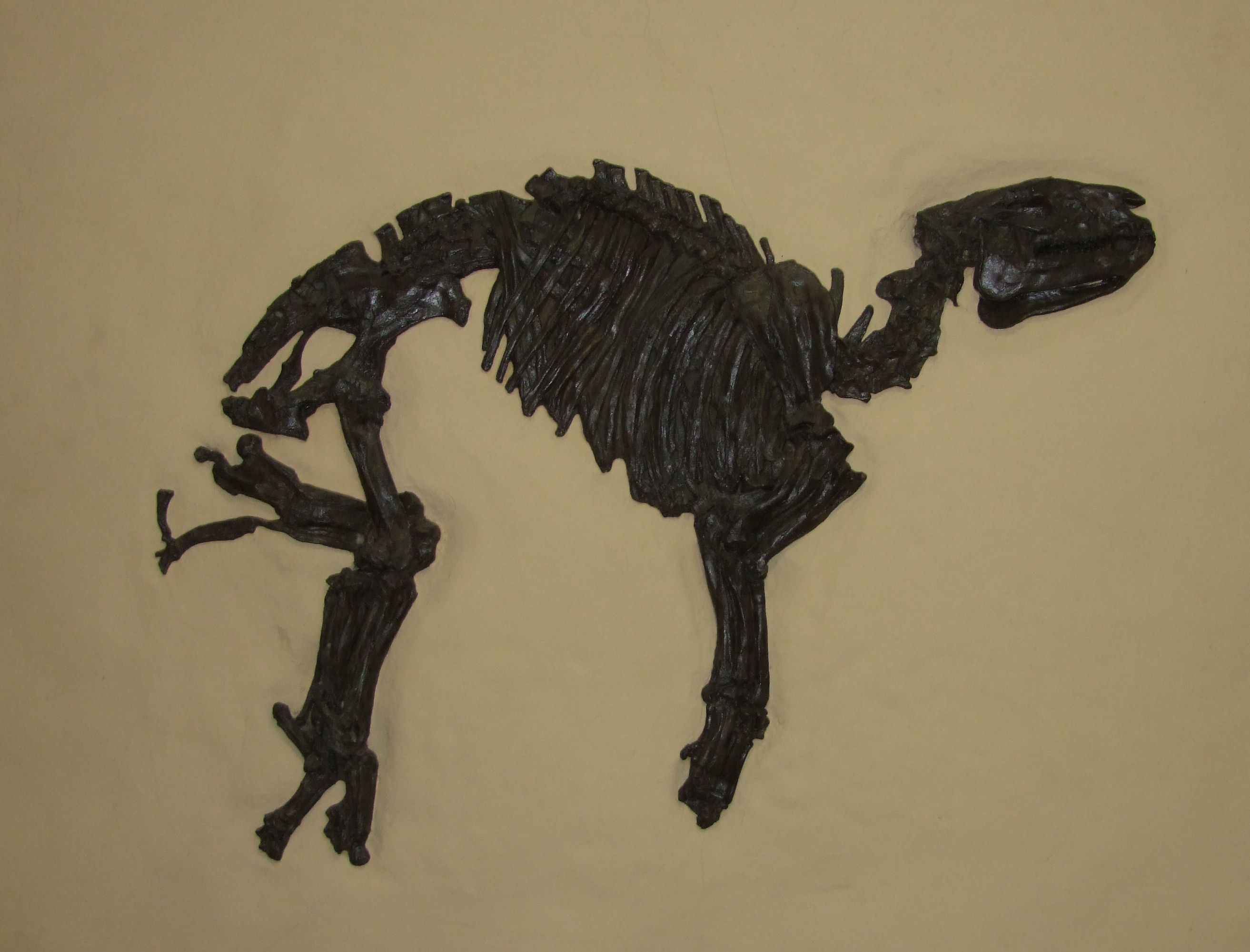 fossil tapiroid from Messel pit